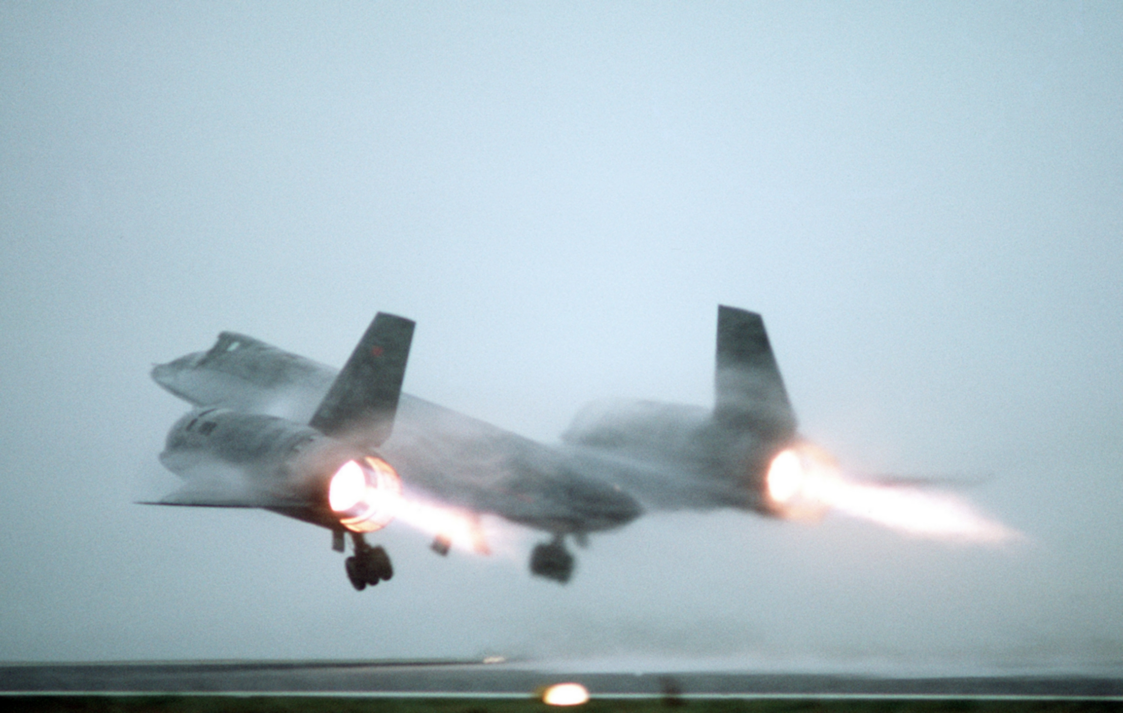 A U.S. Air Force Lockheed SR-71A Blackbird taking off from a fog-shrouded runway. The SR-71 was flown by Det. 4, 9th Strategic Reconnaissance Wing, 3rd Air Force, RAF Mildenhall (UK).